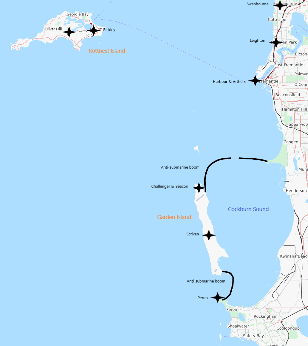 Map of the Fremantle Fortress, with the various batteries shown as black four-pointed stars and the anti-submarine booms as black lines. The map was created using Open Street Map.